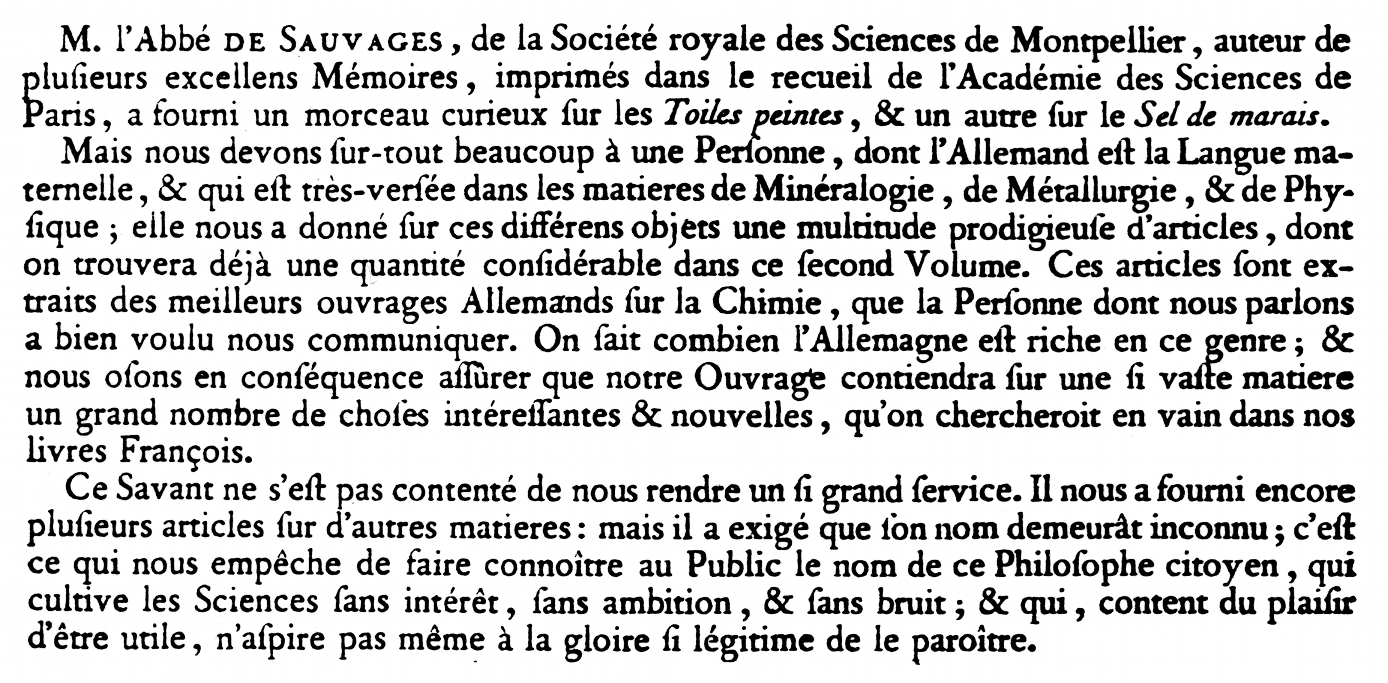 Diderot introducing Holbach in the preface of vol. 2 of the Encyclopédie